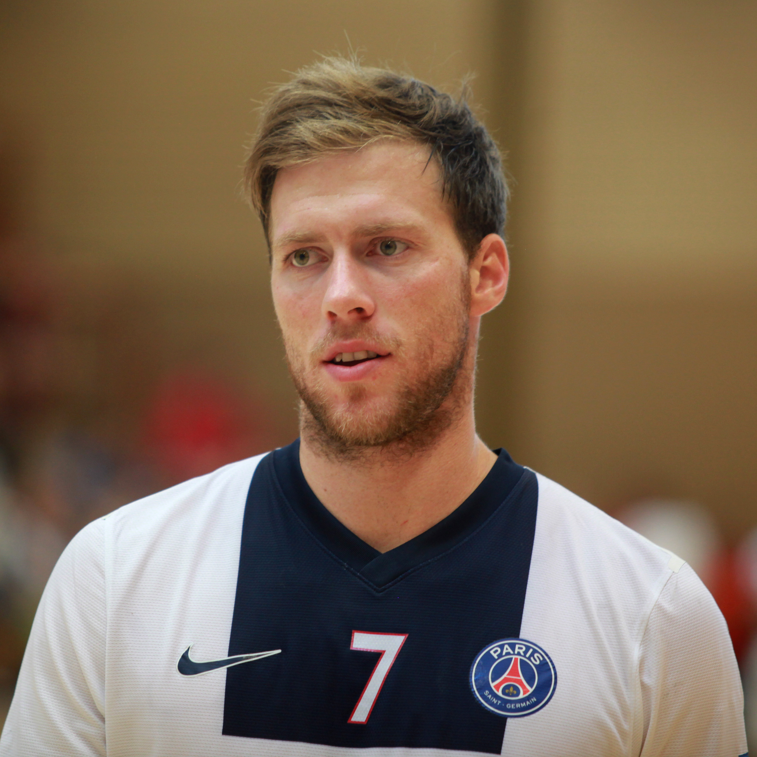 Gábor Császár, on August 17th, 2012 in Ehingen (Germany), during the Sparkassen Cup (formerly known as Schlecker Cup).